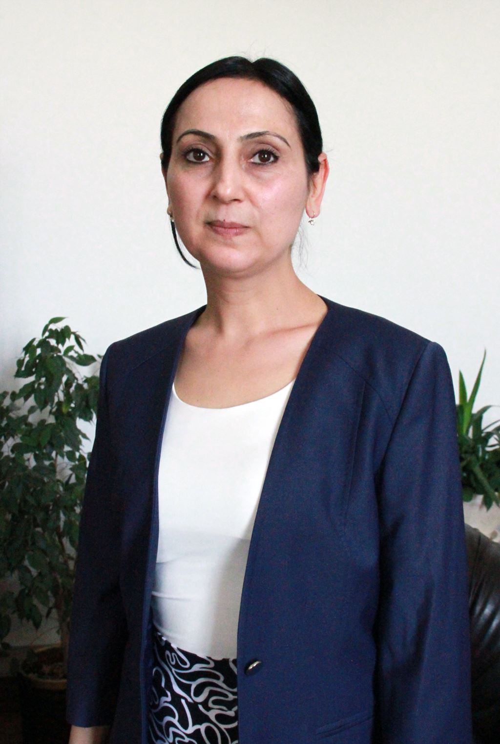 Figen Üstündağ, Co-Chairman of the Peoples' Democratic Party (HDP).